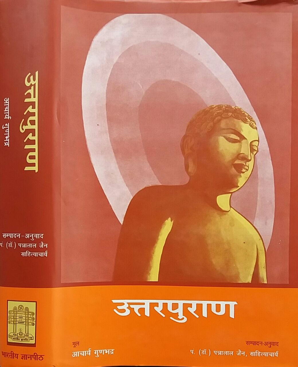 Jain book